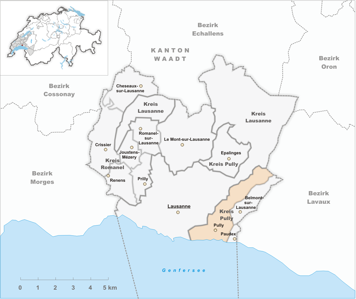 Municipality Pully